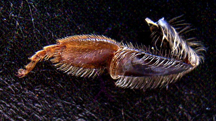 Hind leg of Honey bee from outside